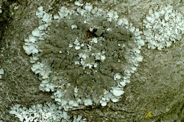 Parmelia saxatilis from Commanster, Belgium. If you think this is a different taxon, please contact James Lindsey.